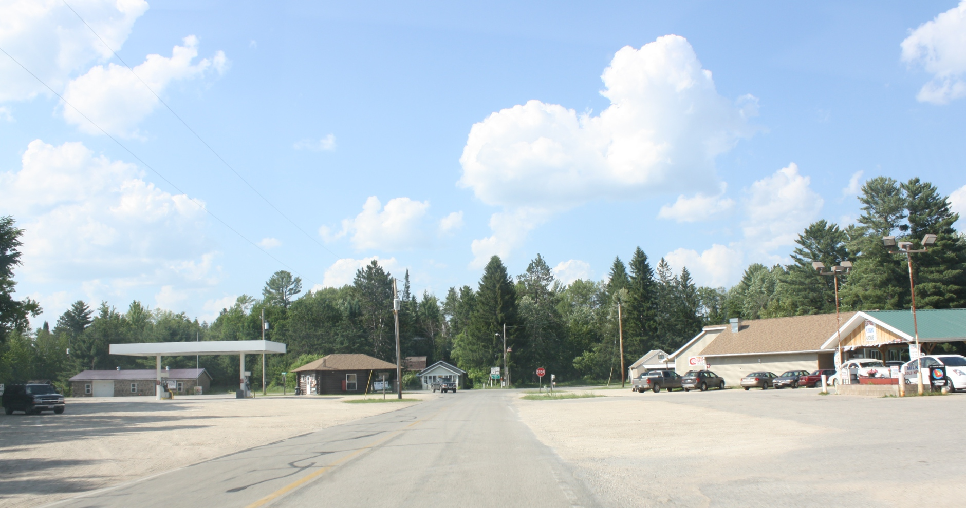 Looking north in downtown Athlestane (community), Wisconsin.